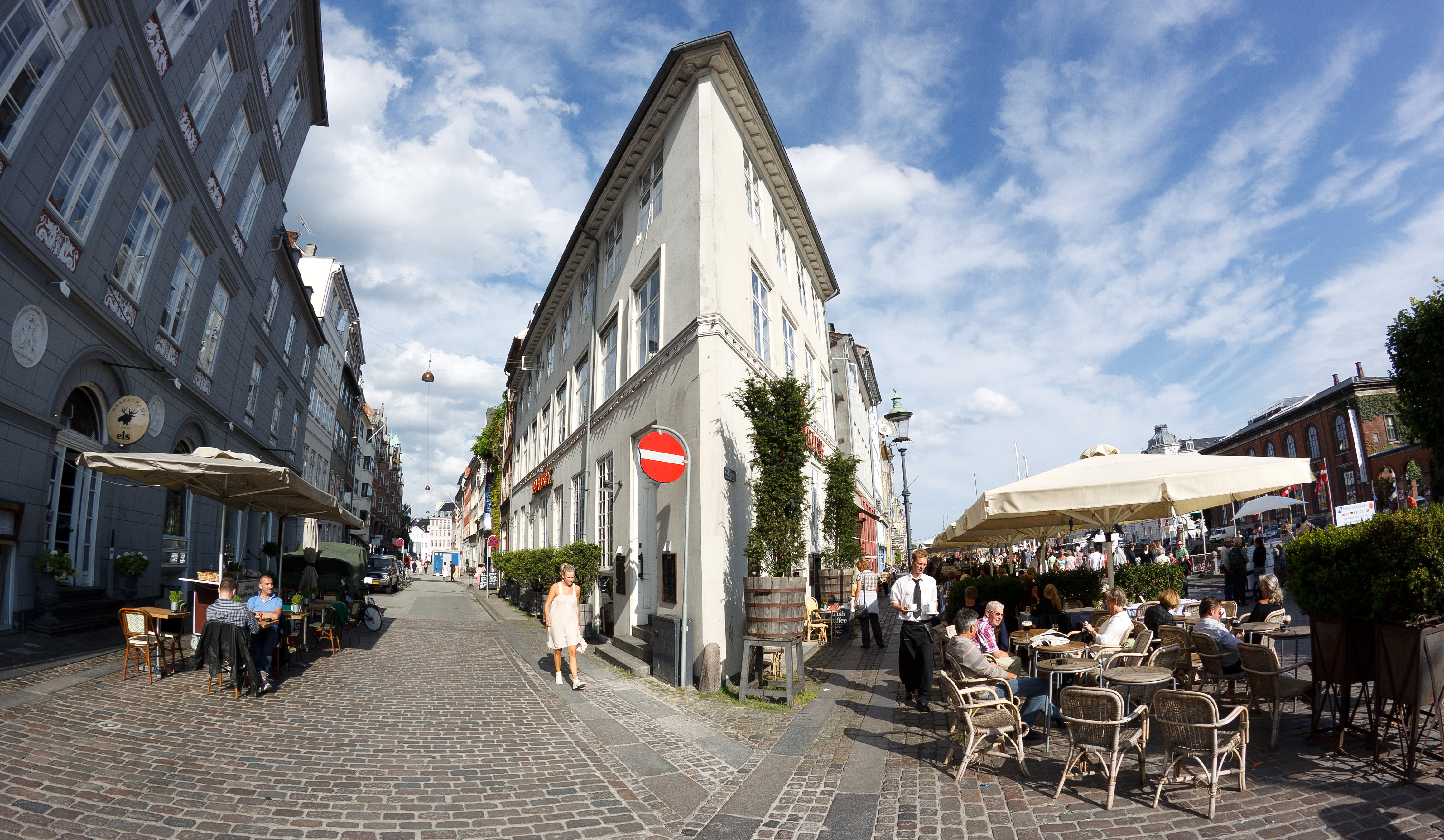 Store Strandstræde to the left and Nyhavn to the right in Copenhagen, Denmark (The fisheye lens used makes it look at bit more extreme than it actually is...)